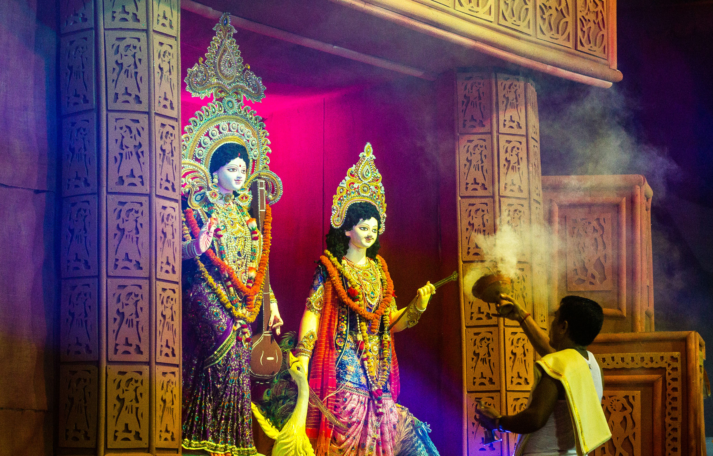 Aroti, Durgapuja, Kolabagan puja Field, Dhaka, Bangladesh